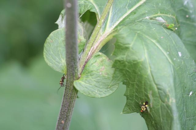 Alpine Plantain (Adenostyles alpina), a photography originating of the internet site The accord of the autor, H. Brisse, is here. Adénostyle des Alpes (Adenostyles alpina), une photographie issue du site internet L'accord de l'auteur, H. Brisse, se situe ici.